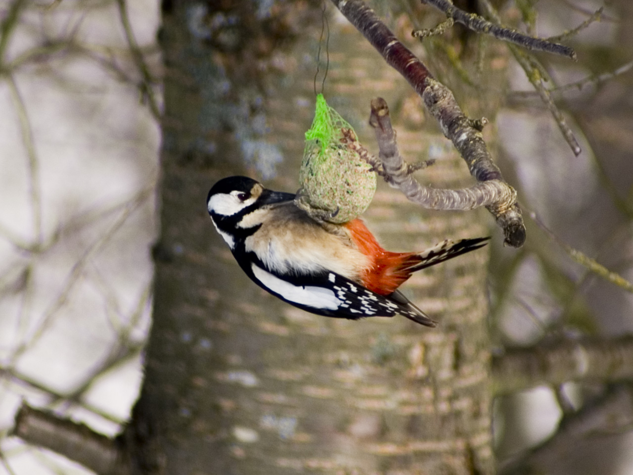 Great Spotted Woodpecker (Dendrocopos major)